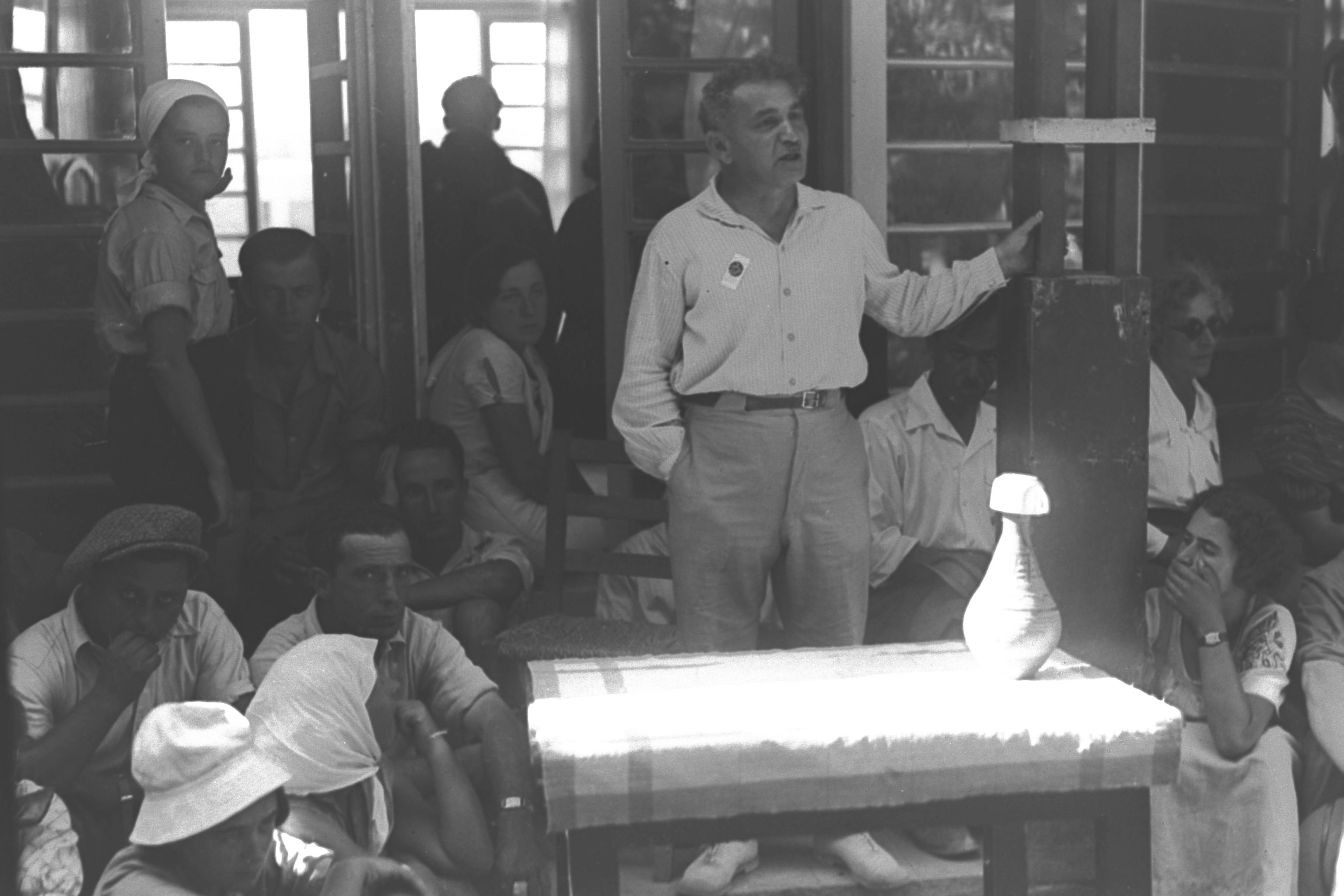 BERL KATZENELSON ADDRESSING THE YOUTH RALLY "FROM TOWN FOT VILLAGE" AT BEN SHEMEN. ברל כצנלסון נושא דברים בכינוס הקורא להגירה מהעיר אל הכפר, בבן שמן.